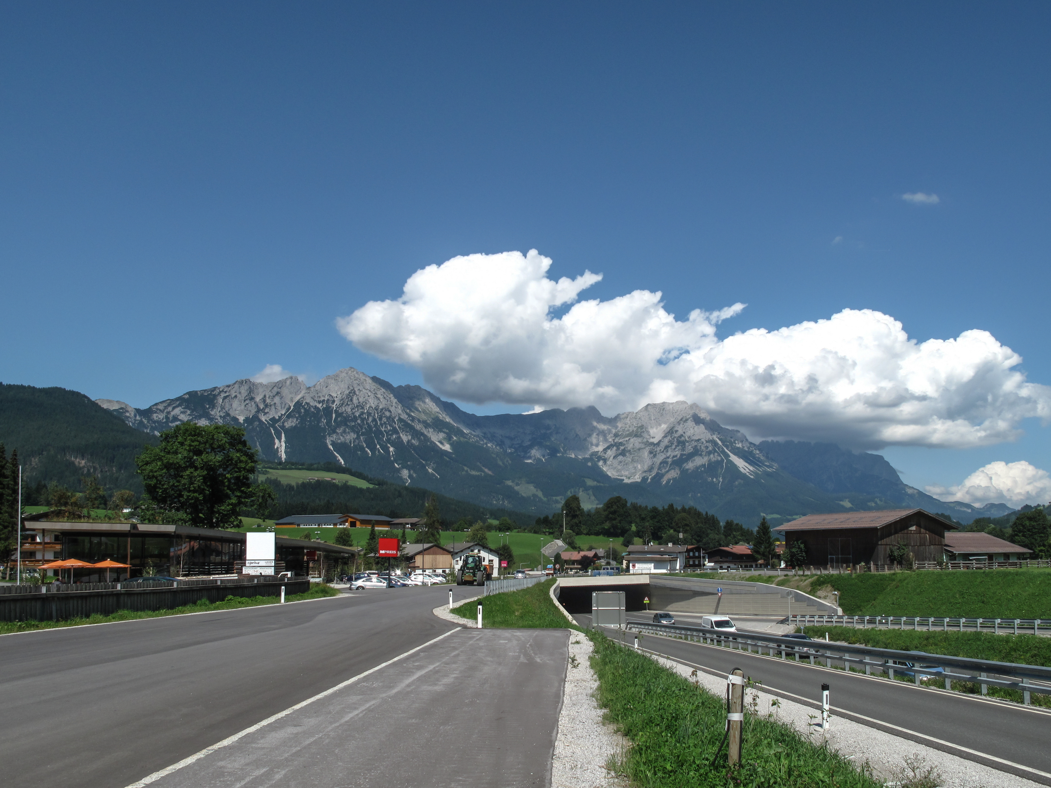 Söll, road in panorama